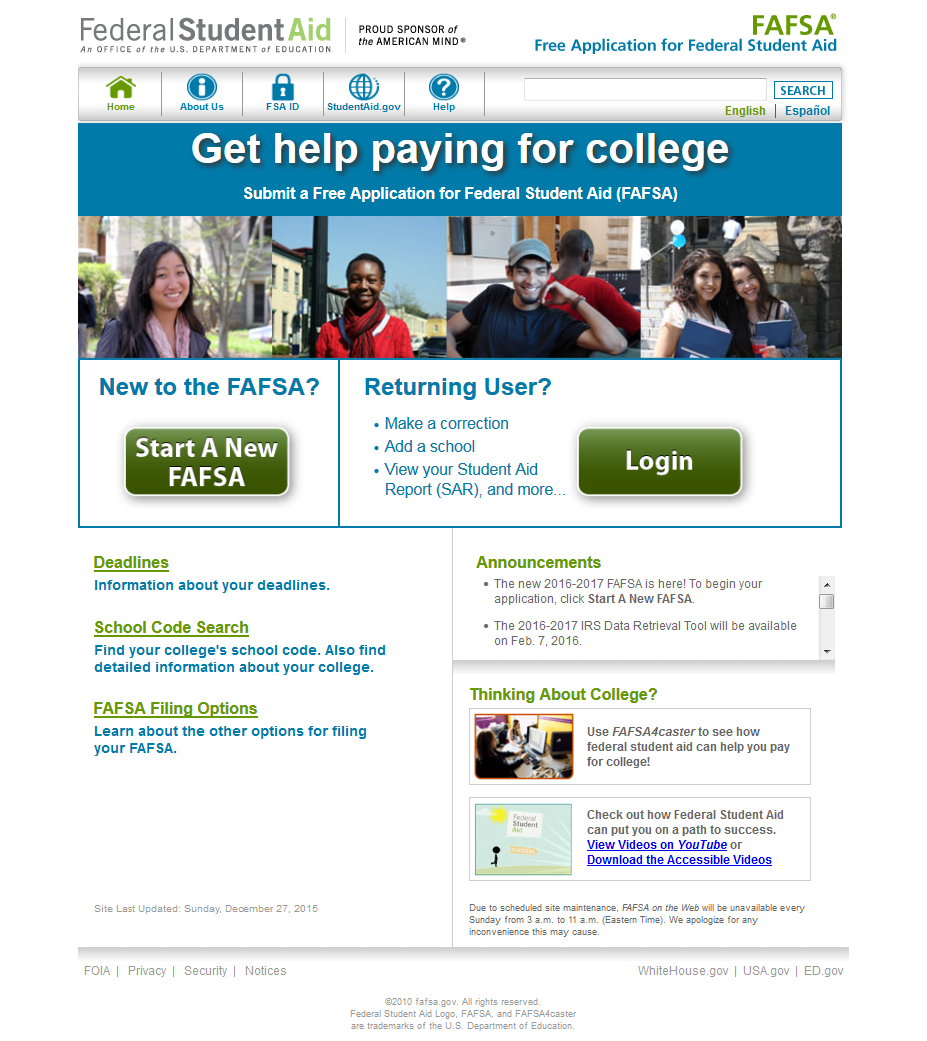 screenshot 2016-01-04